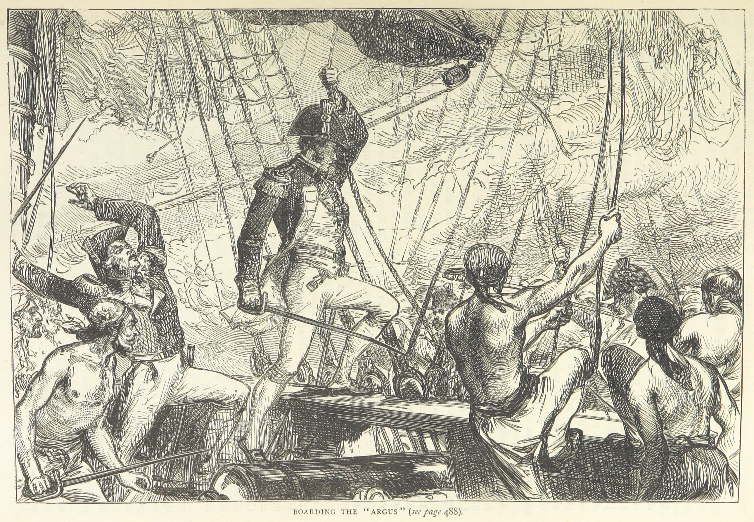 The crew of the HMS Pelican prepare to board the USS Argus.